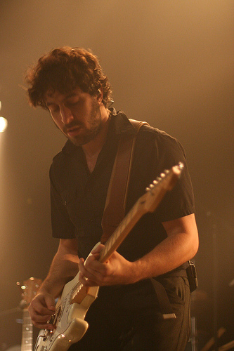 Patrick Krief performing at a Dears gig (Botanique, Brussels. Patrick Krief is a Canadian musician and singer-songwriter.)